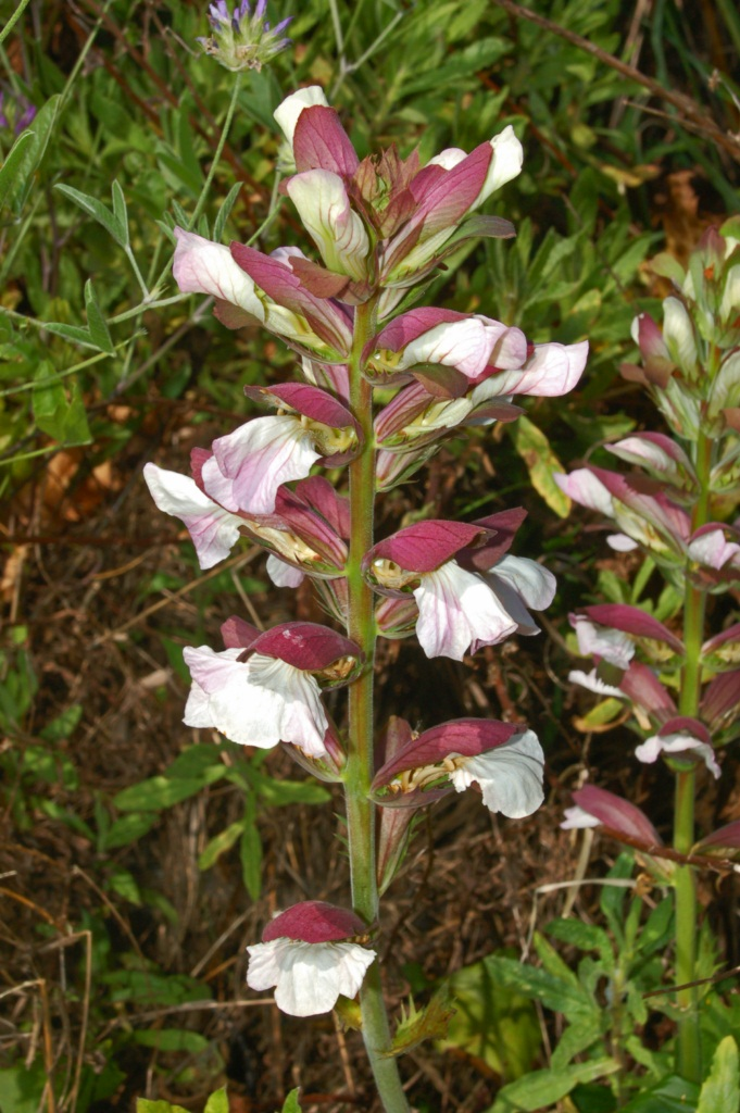 Acanthus mollis - S. Bernardo, Genova, Italy